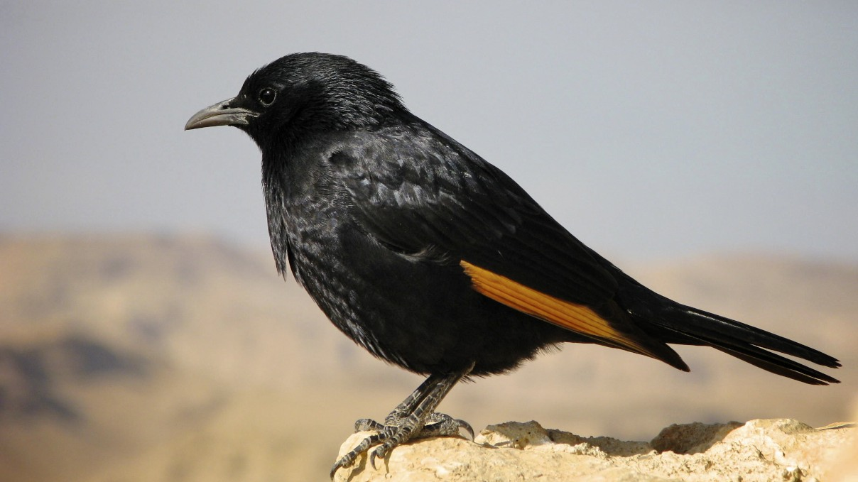 a picture of a tristram's starling from Masada